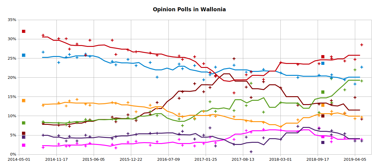 Graphical representation of the opinion polls conducted in the Walloon Region since 25 May 2014.